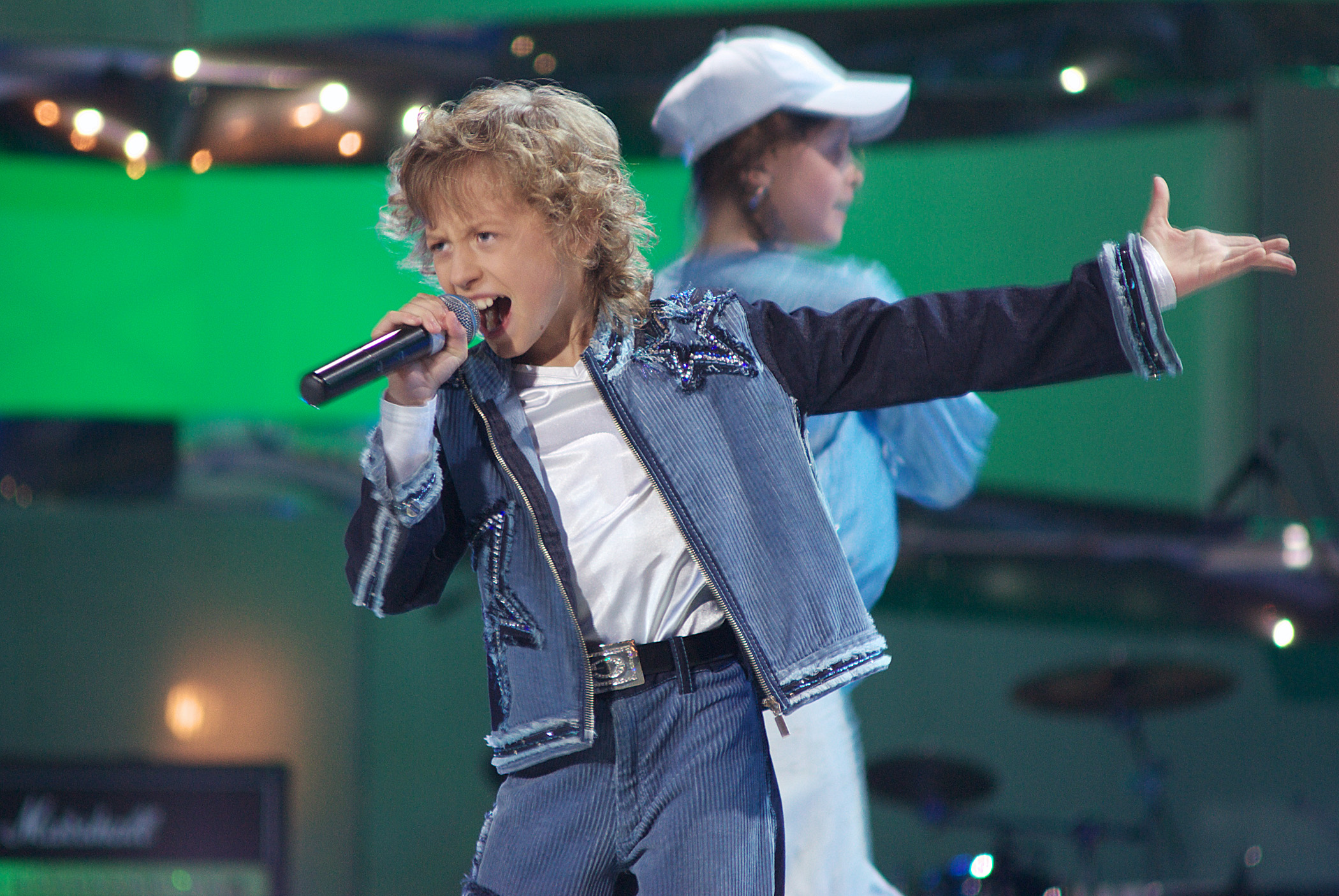 Andrej Kuniec